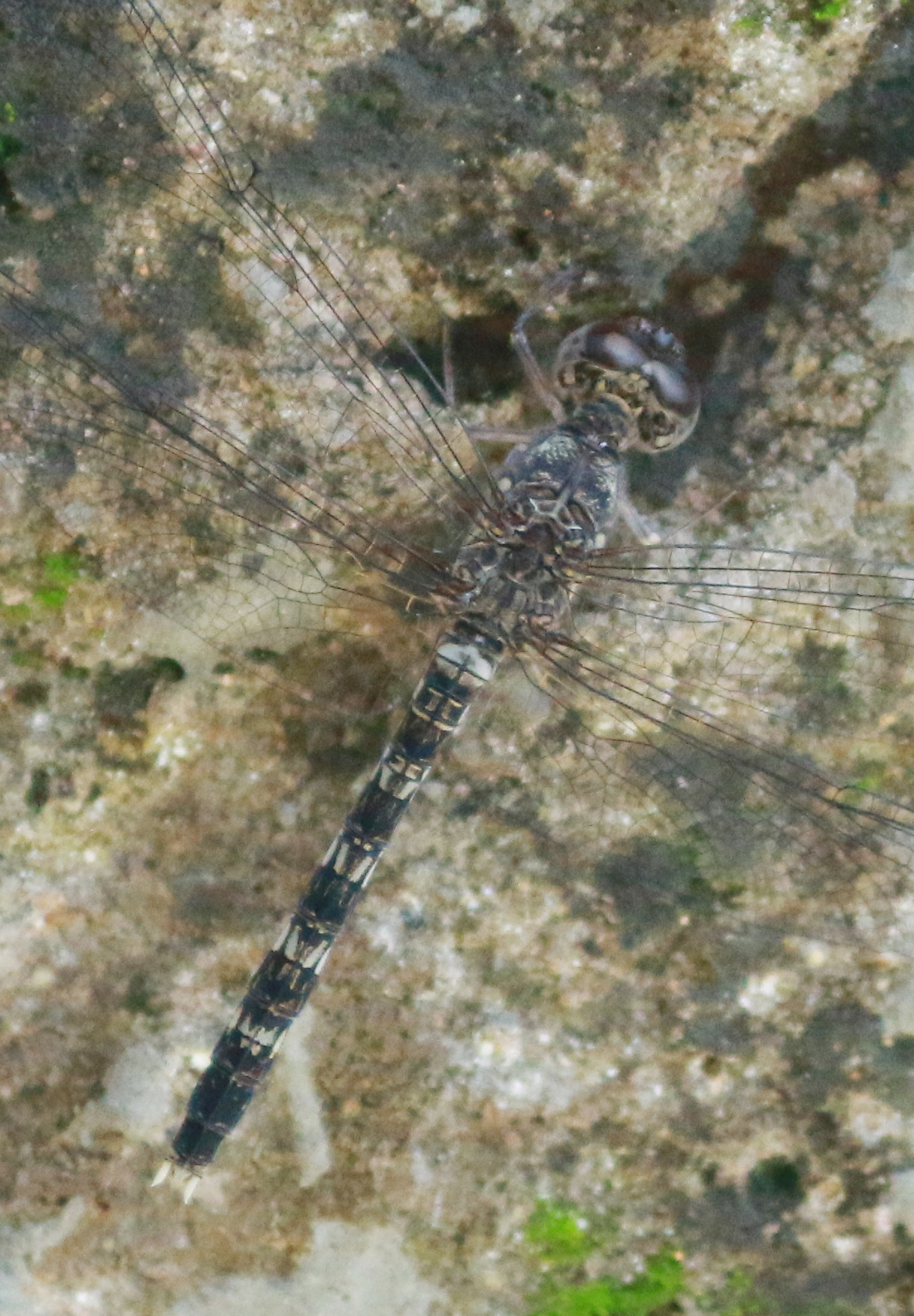 Granite Ghost,Bradinopyga geminata